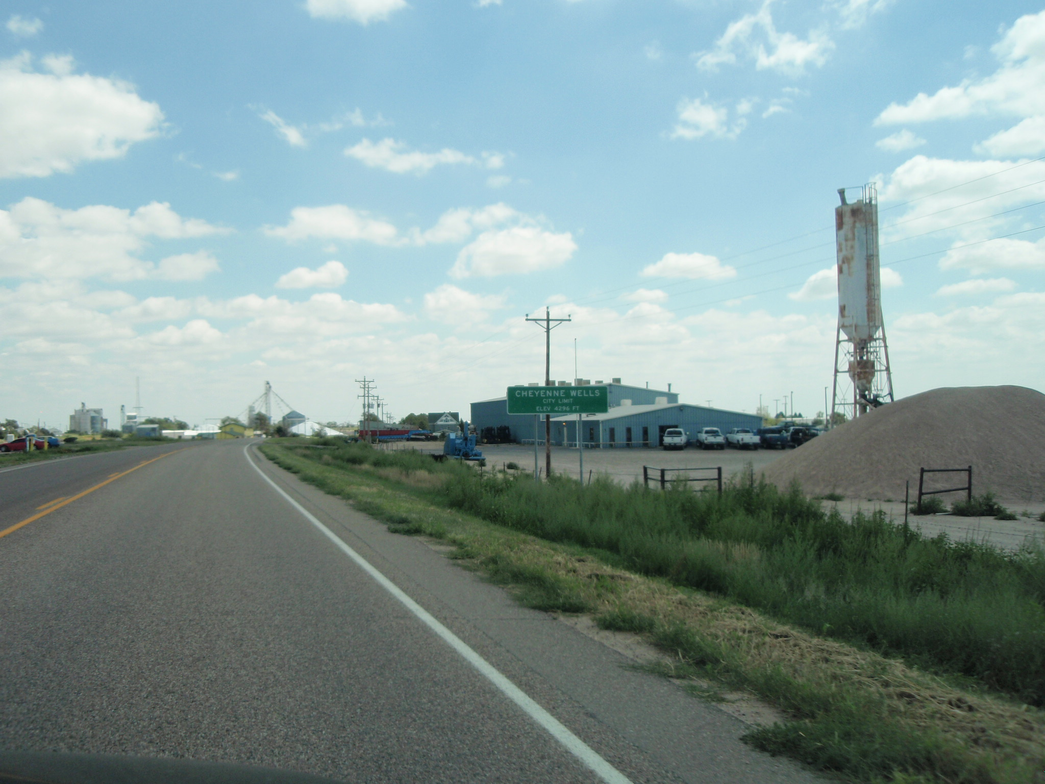 Cheyenne Wells, Colorado